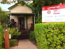 a view from the street of the entrance to one of the Compass institute's centres, located in Palmwoods, QLD.